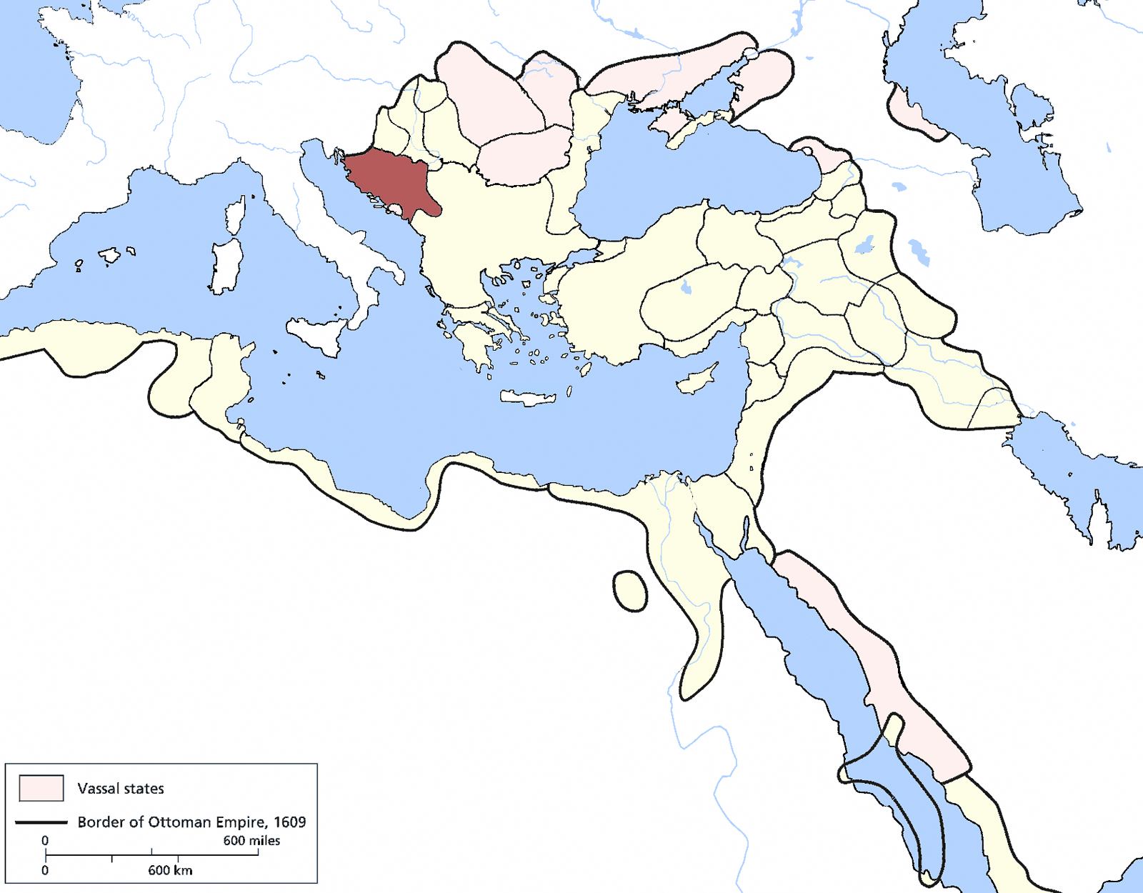 Bosnia Eyalet, Ottoman Empire (1609). Source: Encyclopedia of the Ottoman Empire at Google Books By Gábor Ágoston, Bruce Alan Masters